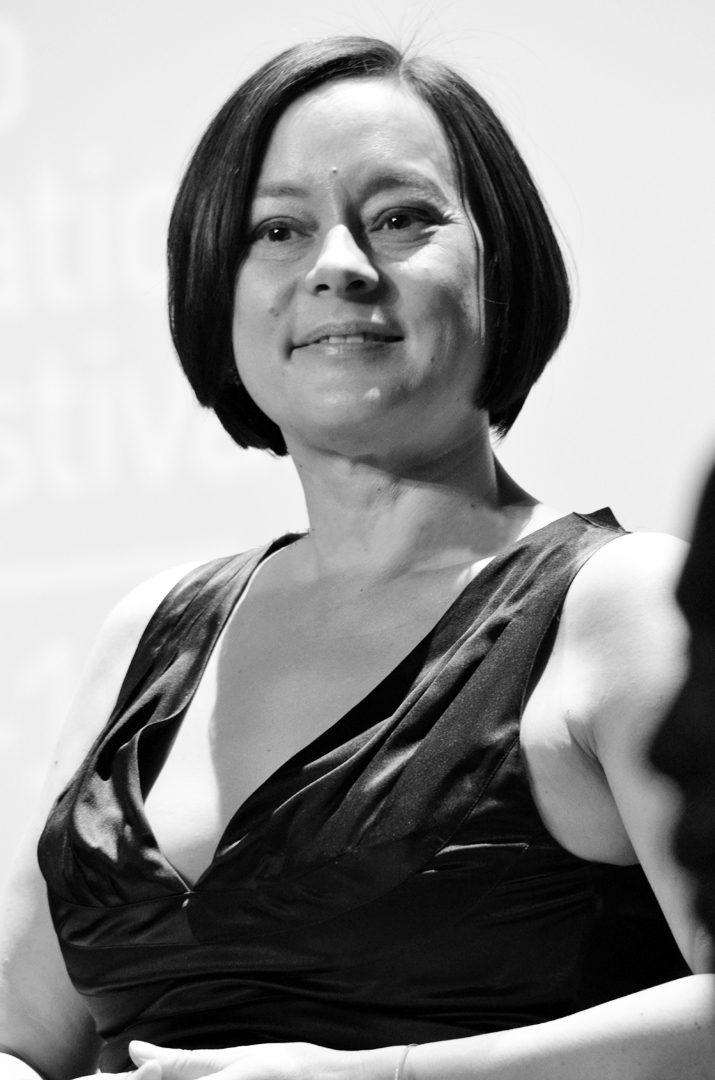 Canadian-American actress Meg Tilly at the Toronto International Film Festival, September 5, 2013